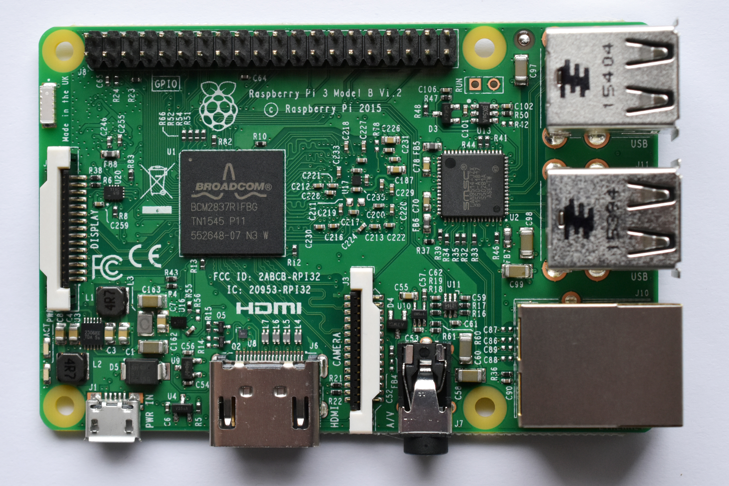 Rhaspberry Pi 3